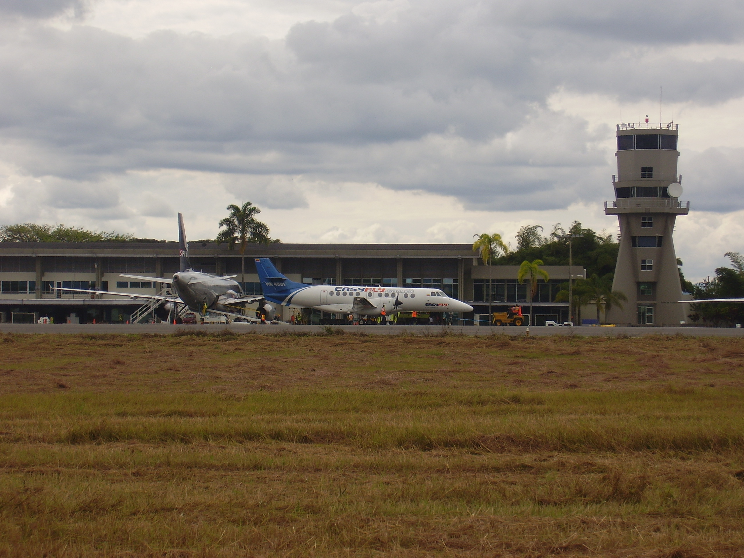 Easy Fly JetStream 41 From Armenia to Bogota